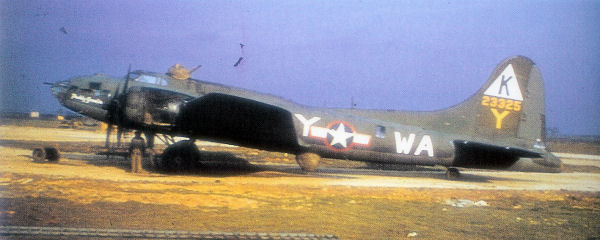 Douglas-Long Beach B-17F-45-DL Fortress Ser. No. 42-3325 524th BS, "Paddy Gremlin", of the 379th Bomb Group, RAF Kimbolton, England.